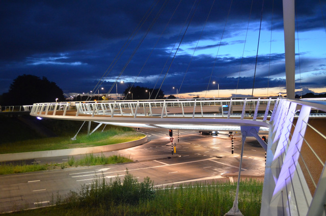 Hovenring, elevated suspension bicycle roundabout cycle track at night.